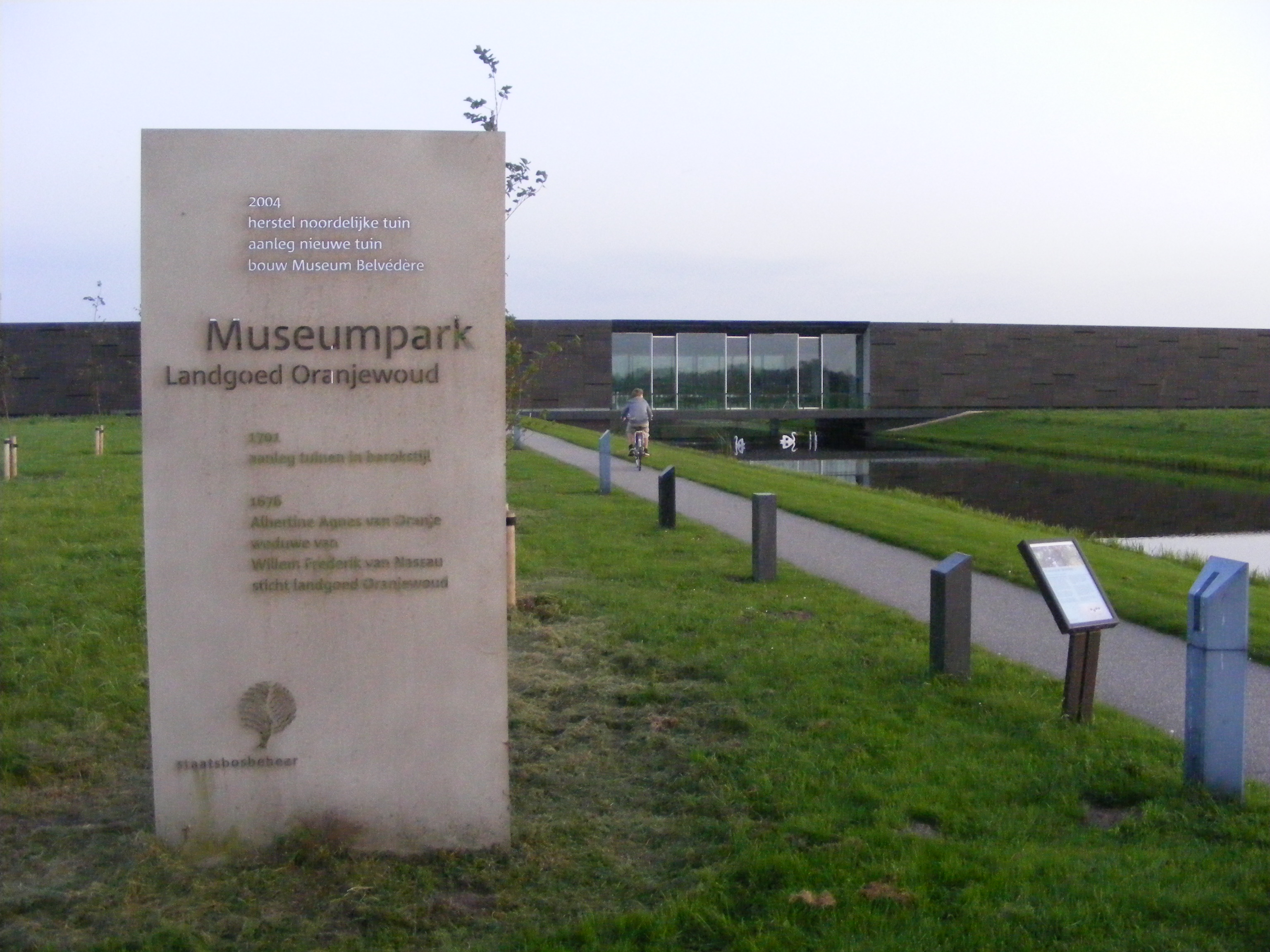 Museum belvedere in Oranjewoud